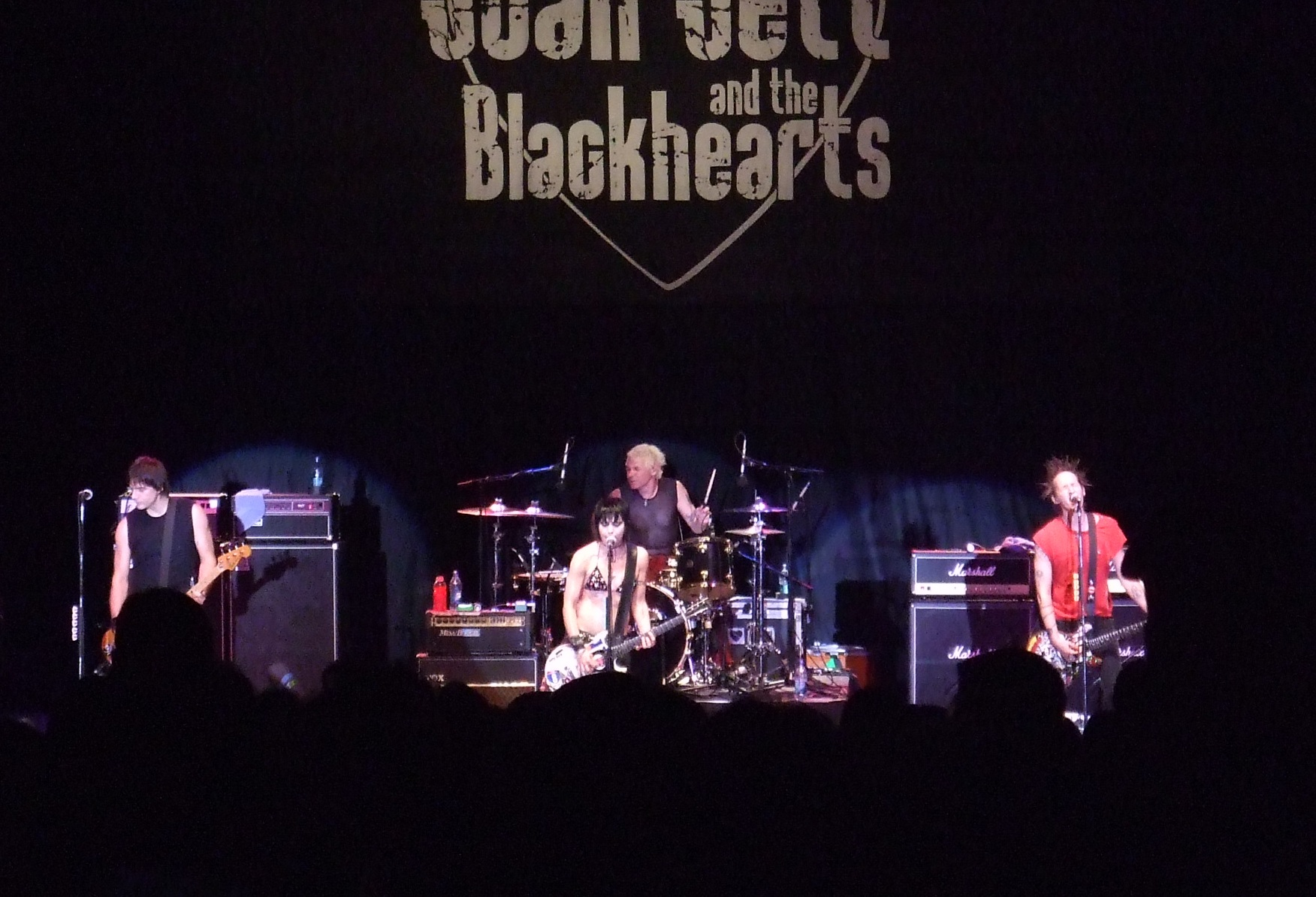 Joan Jett and the Blackhearts at the 2007 Nebraska State Fair.